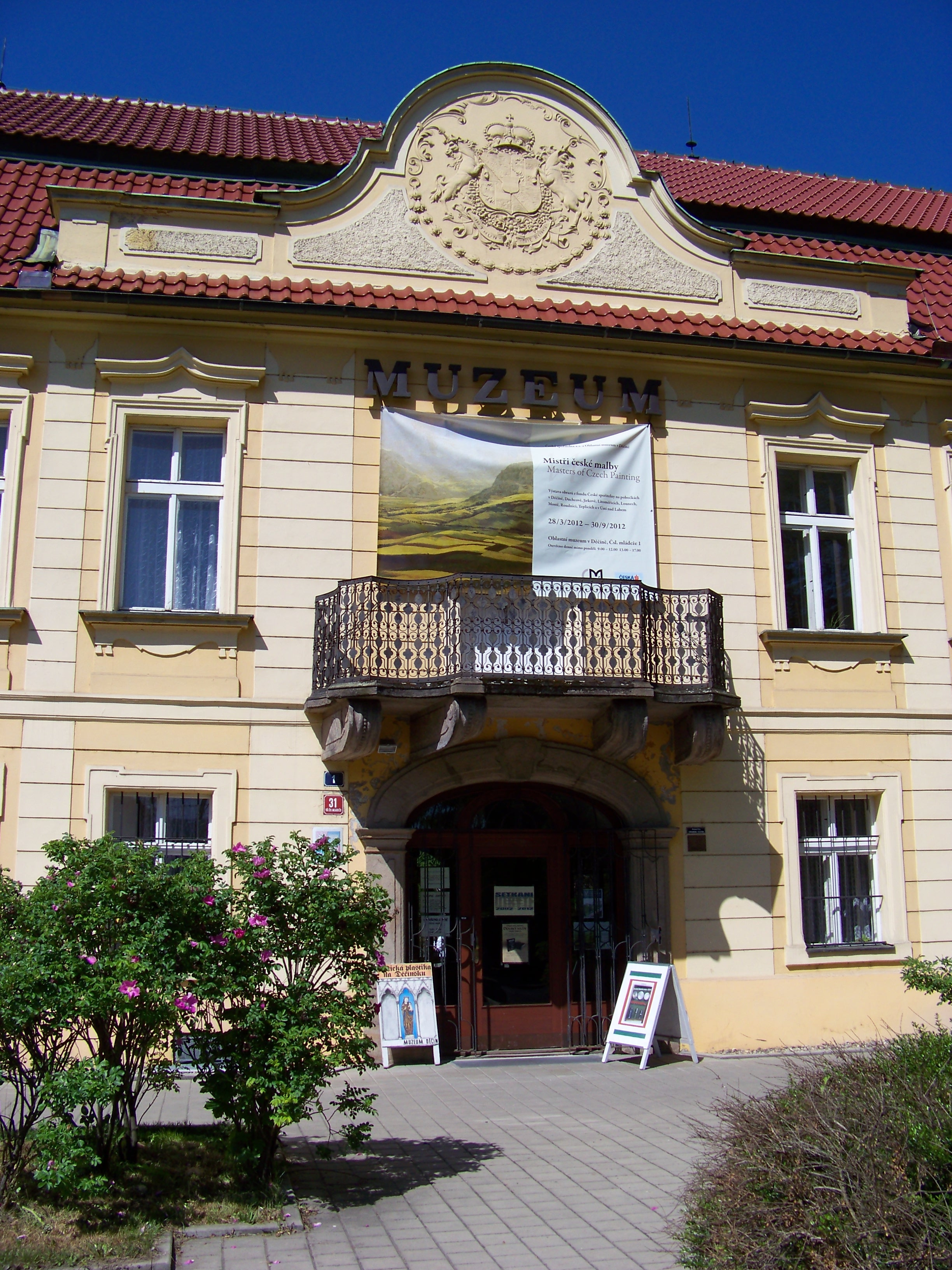 Děčín IV-Podmokly, Děčín District, Ústí nad Labem Region, the Czech Republic. Čsl. mládeže street, a portal of the regional museum. - OpenStreetMap(Info)